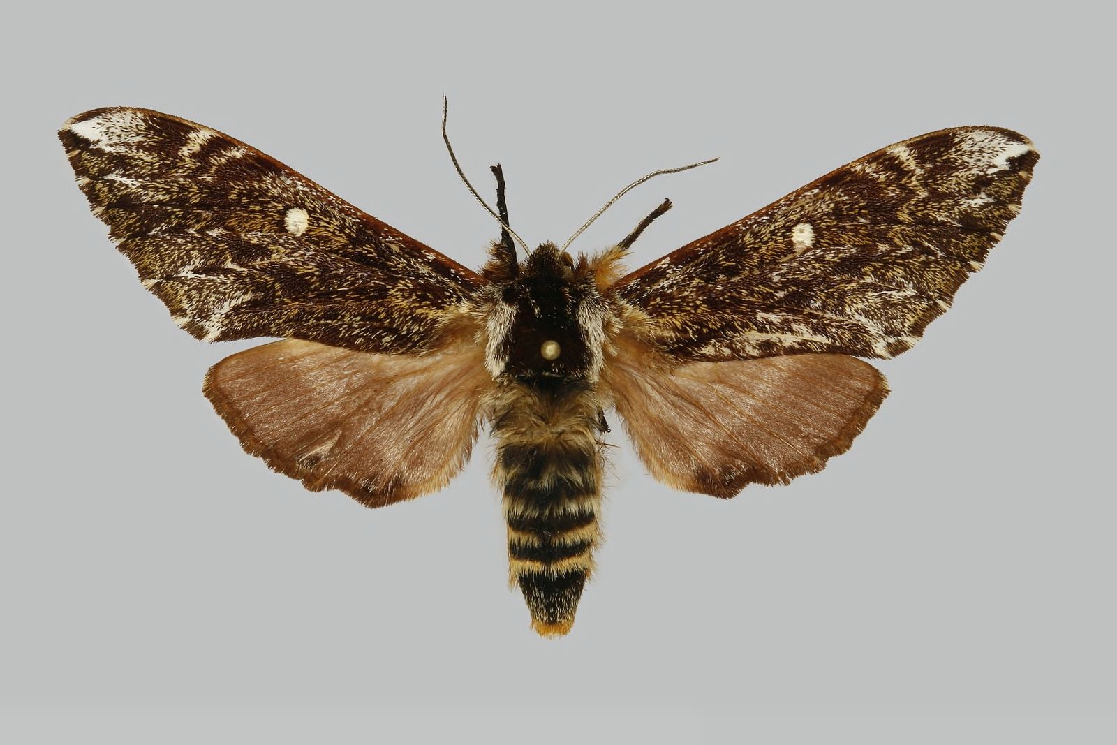 Pentateucha stueningi, female, upperside. China, WuyShan Jiangxi-Fujian border 50km SE from Yingtan